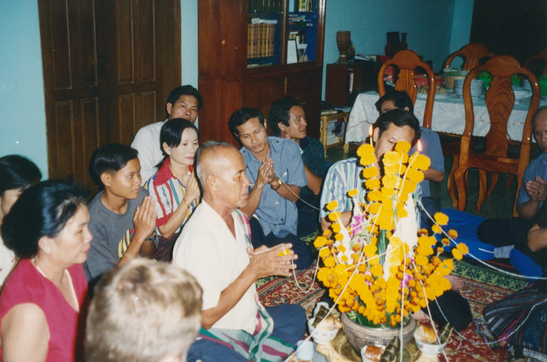 A local family where two of my friends stayed held a baci ceremony for us, for our safe journey. Baci is an animist ritual used to celebrate important events and occasions, like births and marriages and also entering the monkhood, departing, returning, beginning a new year, and welcoming or bidding etc. The ritual of the baci involves tying strings around a person’s wrist to preserve good luck, and has become a national custom. (From Wikipedia